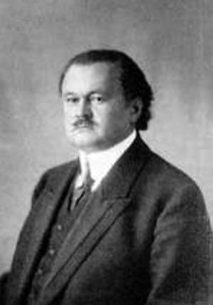 Nikolaj Markow